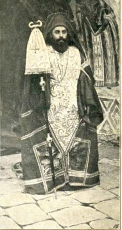 Bachkovo Monastery Paisus Pastirev December 1905